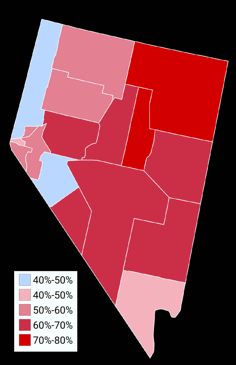 Map showing the results of the 2014 Nevada Secretary of State General Election by County.